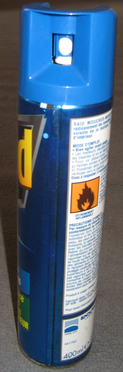 Aerosol spray